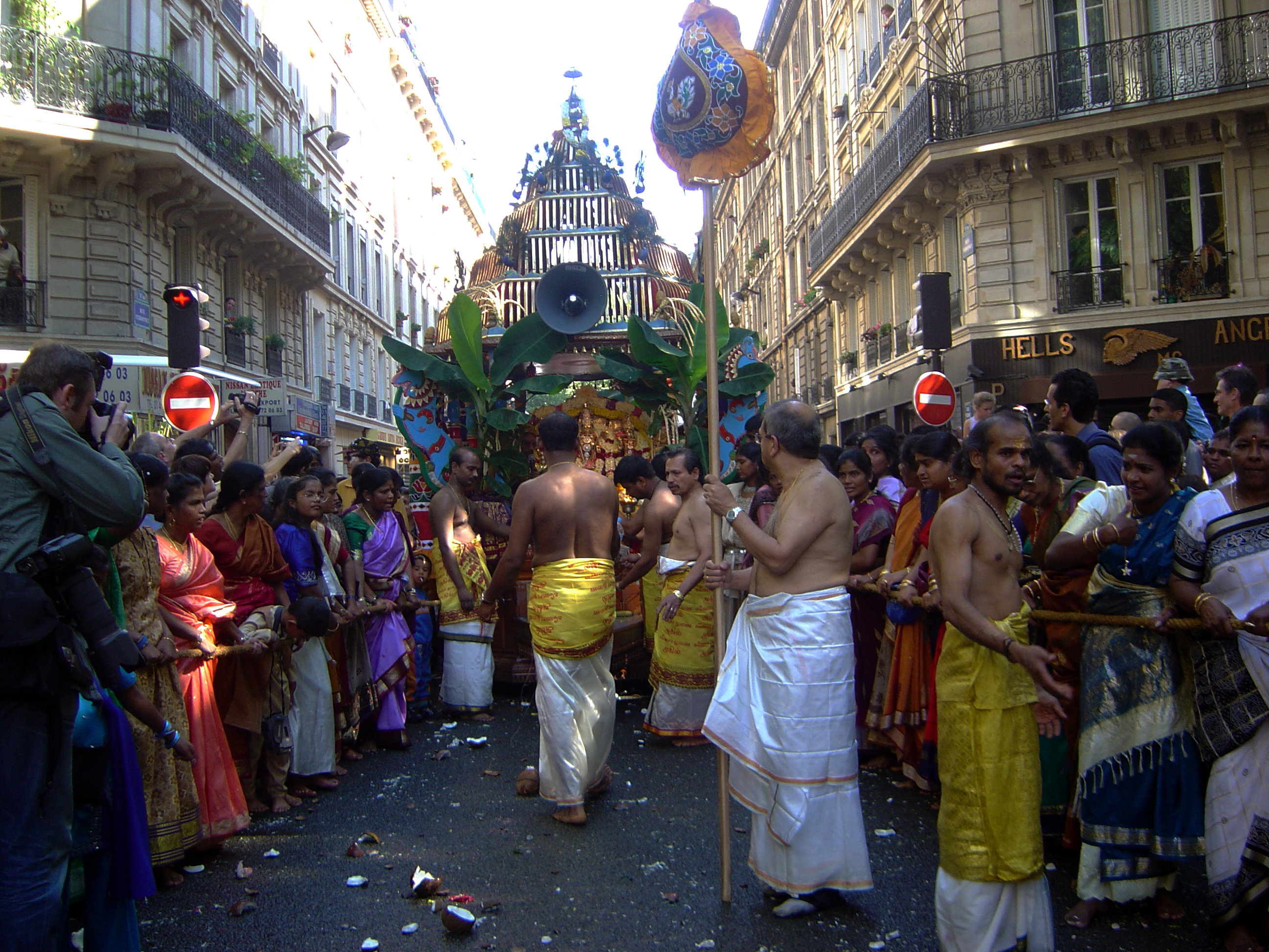 Celebration of Ganesh, Paris.